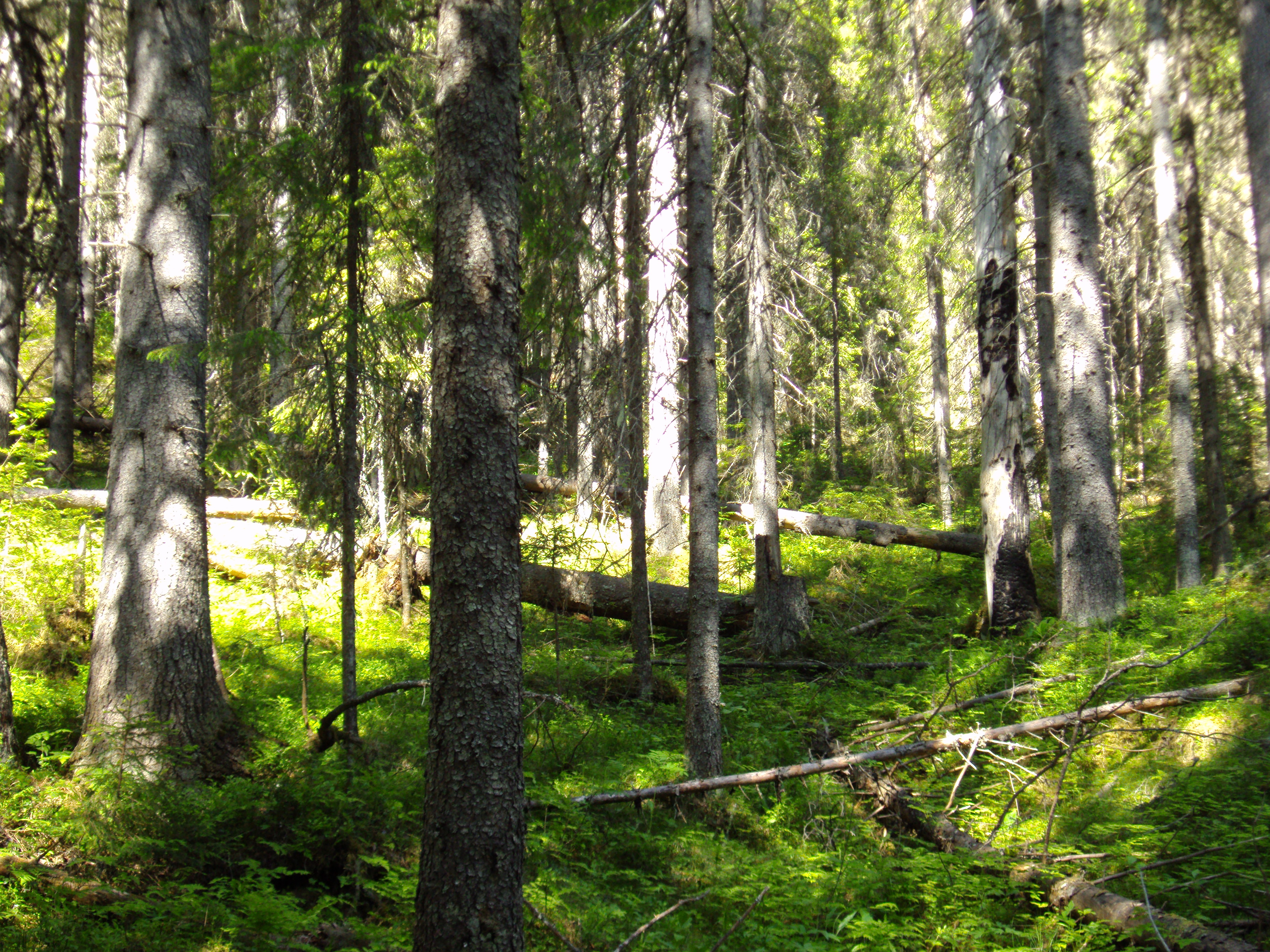 Nature reserve: Vällingsjö urskog, Municipality of Sollefteå, Sweden